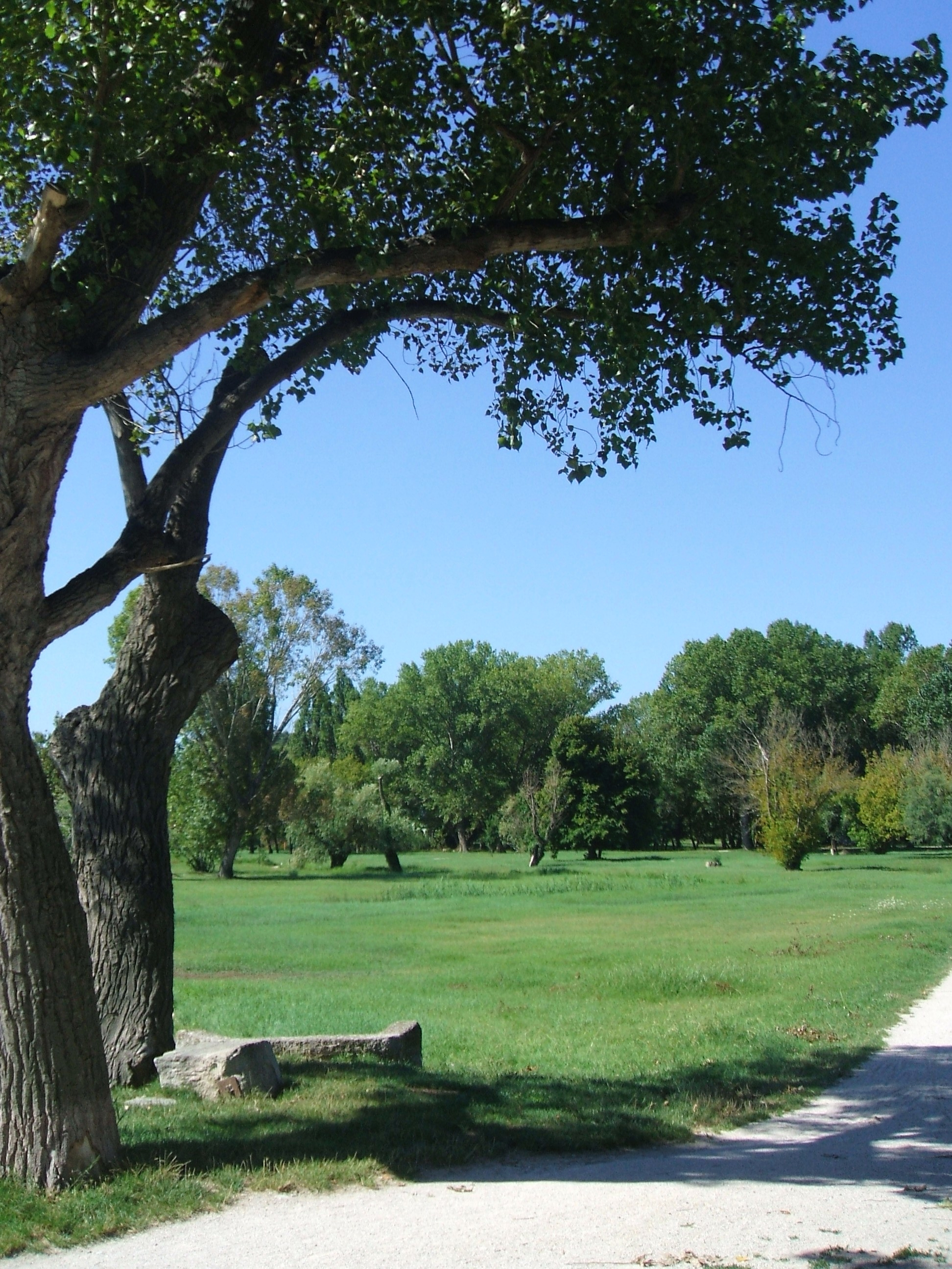 April,25th Park in Rimini